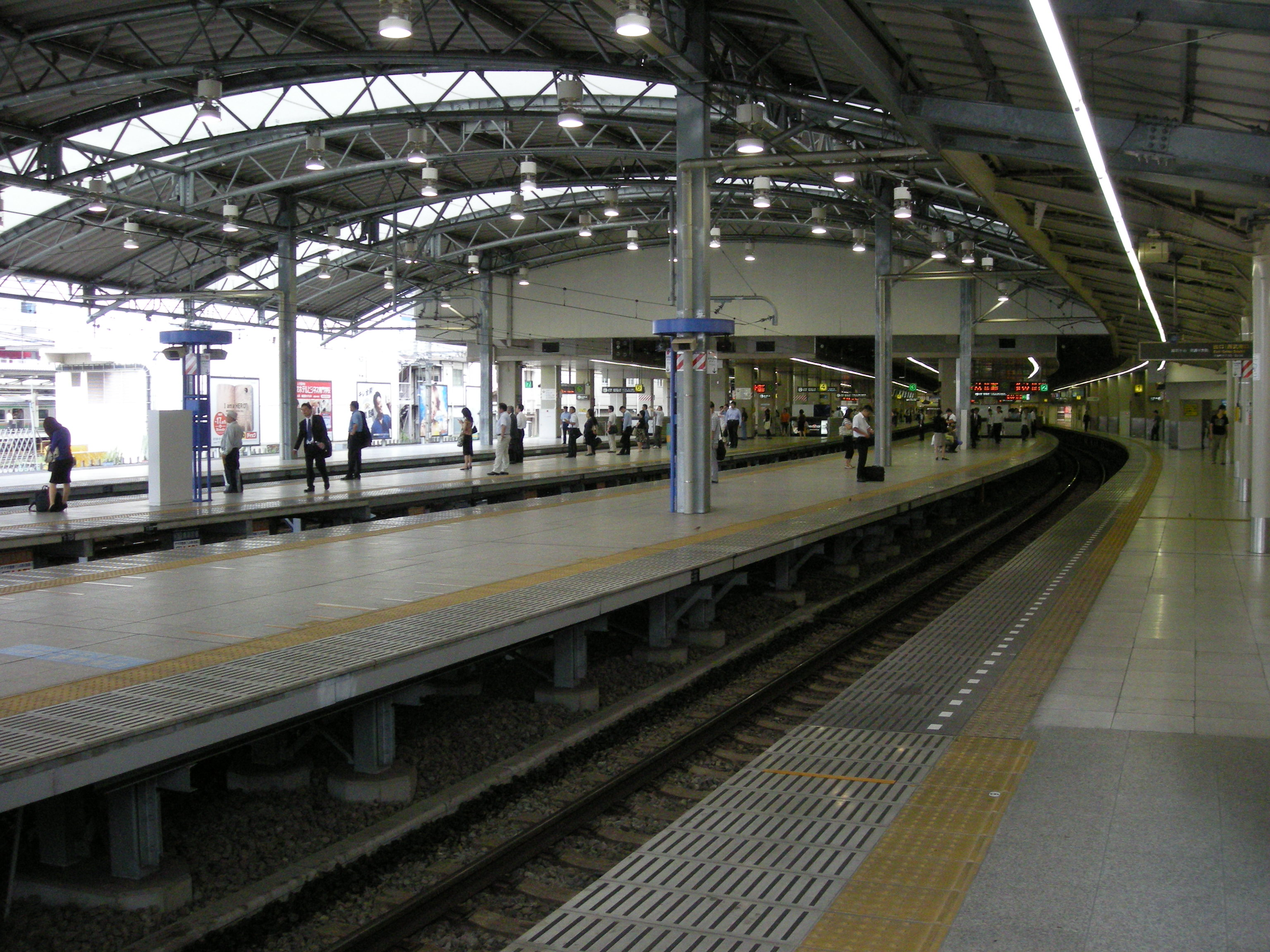 The platforms at Seibu Ikebukuro Station viewed from the Seibu South Exit